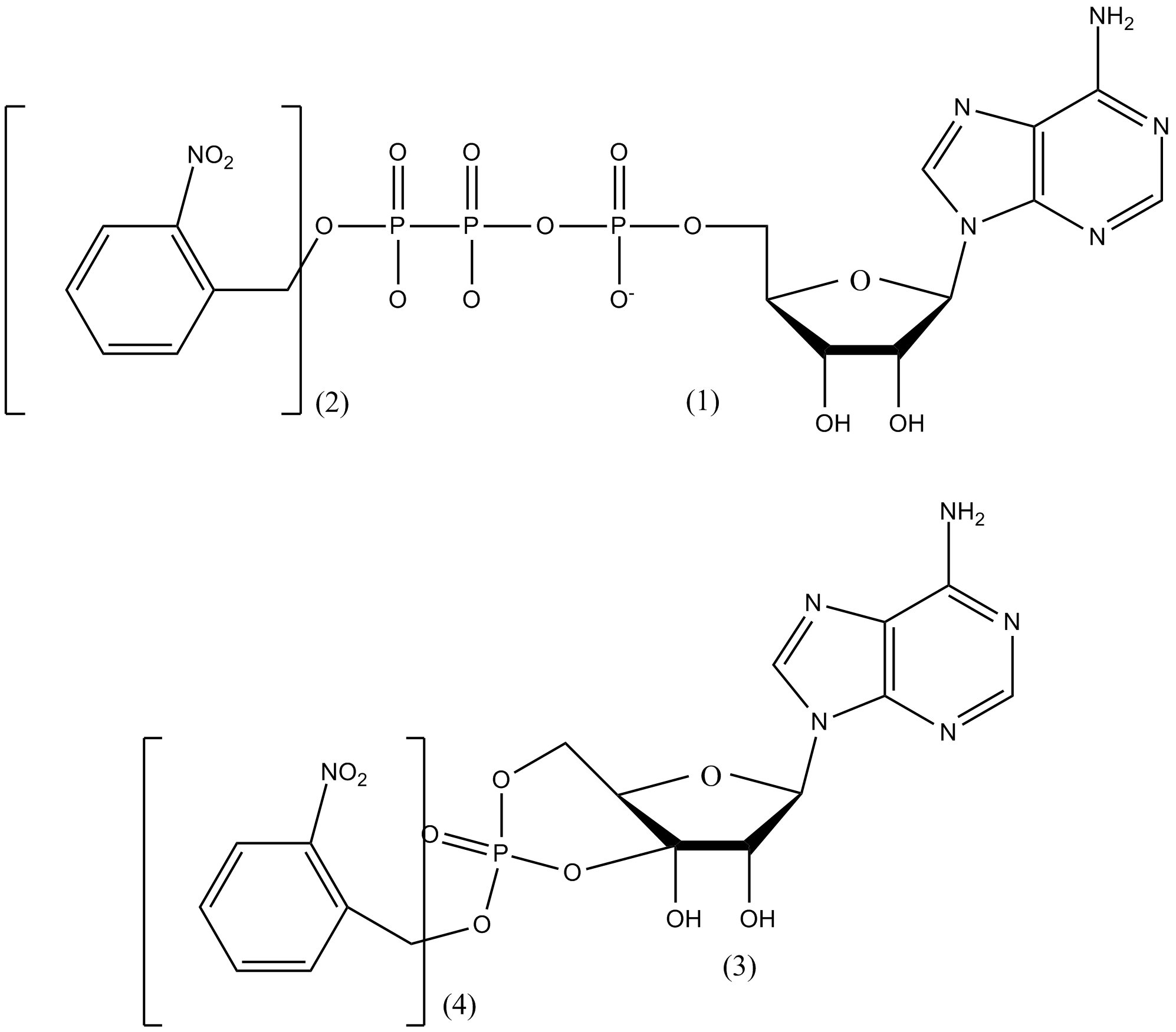 Diagram of photolysis of caging group on cAMP